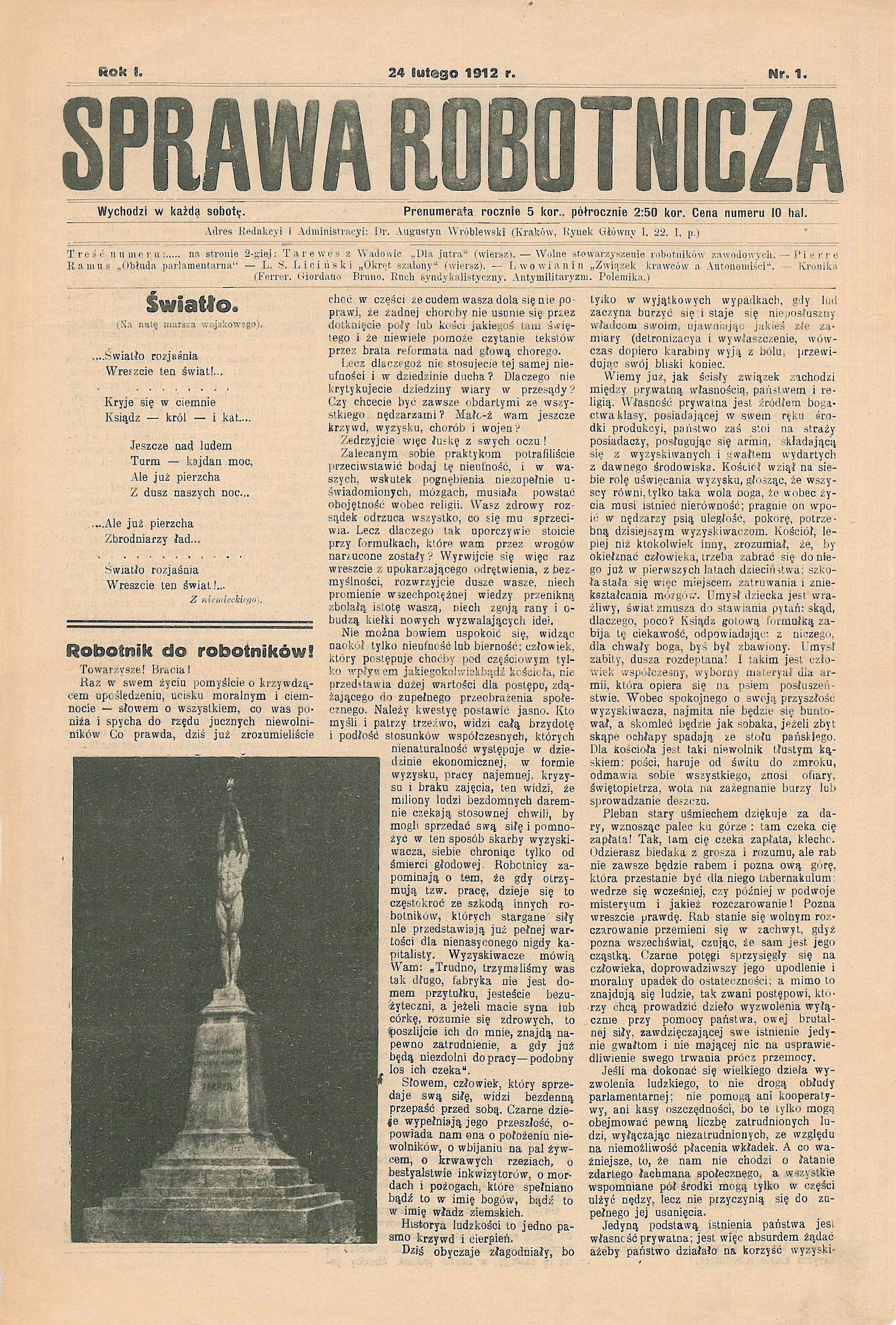 The first issue of an anarchist weekly from Cracow called Sprawa Robotnicza (Workers Cause)